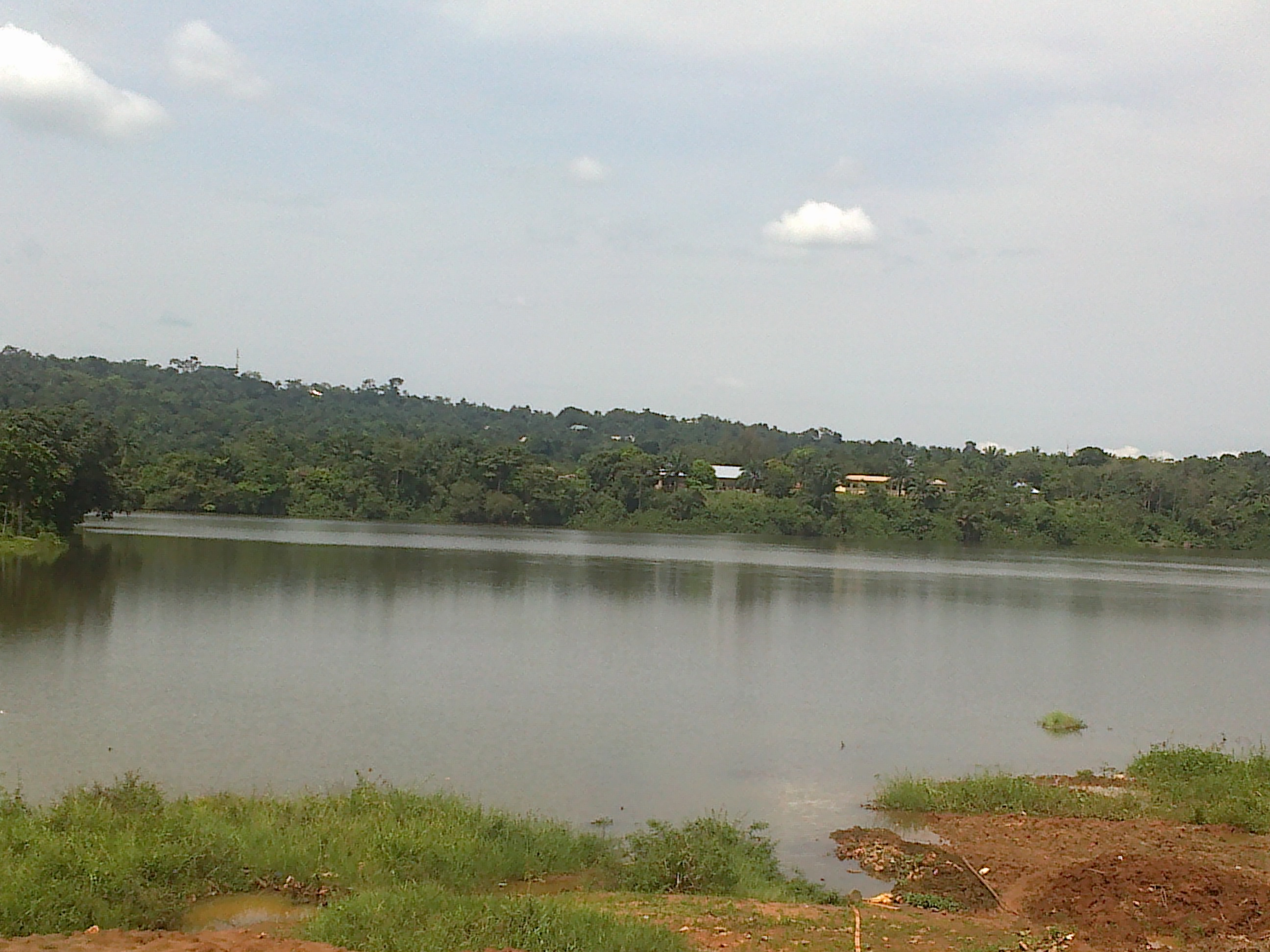 The crocodile laden waters of Agulu lake, Anambra state, Nigeria